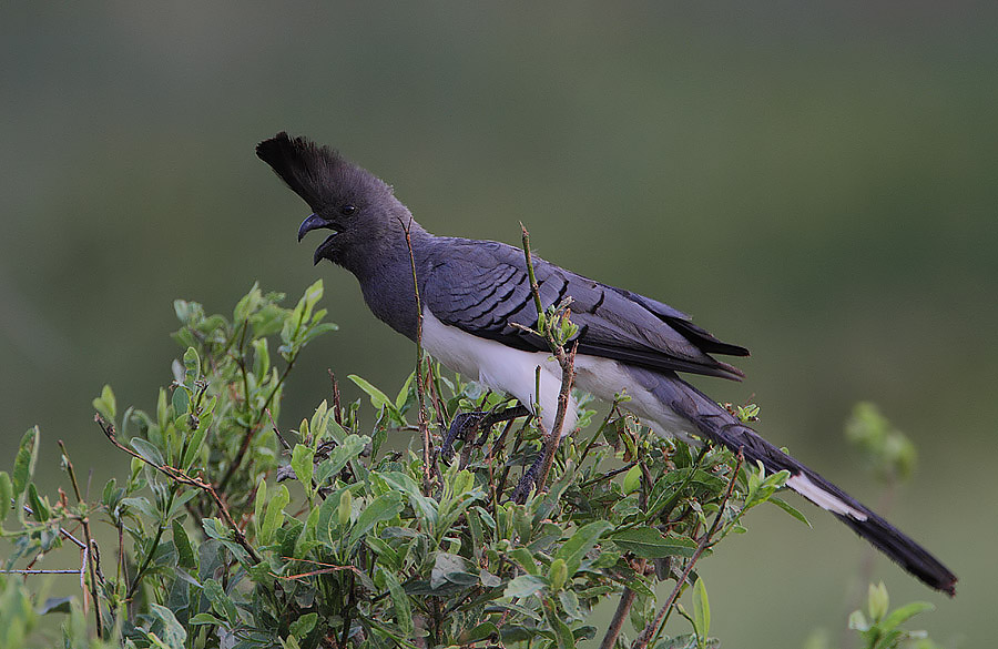 A White-bellied Go-away-bird at Buffalo Springs National Park, Kenya.